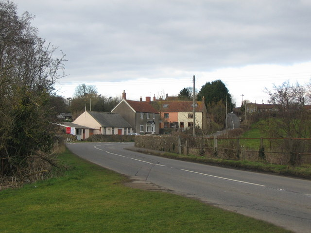 Blatchbridge. A view looking north along the B3092 to Blatchbridge, over the River Frome.